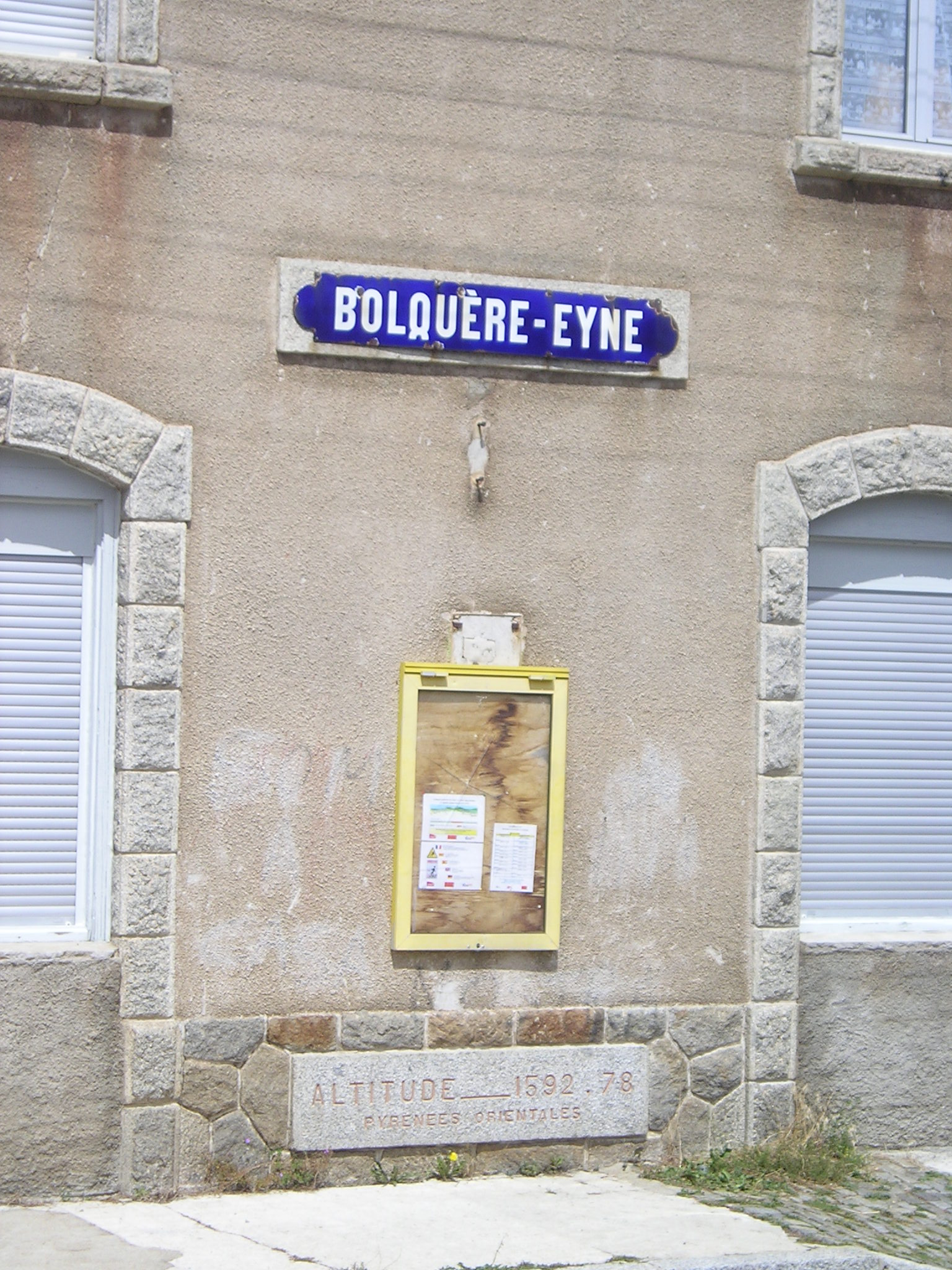 Picture of the Bolquère-Eyne railway Station in the French Pyrenean mountain. Considered as the highest railway station in western Europe. Picture took by Galano user in august 2006.